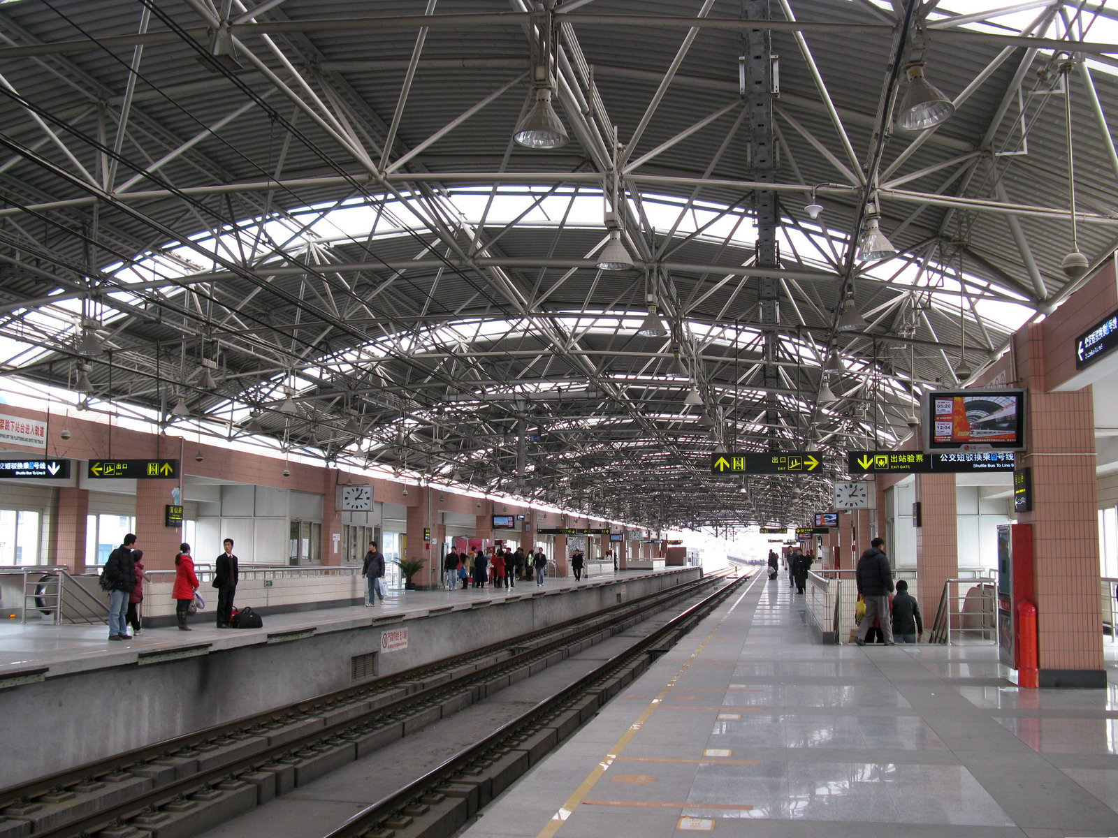 宜山路站 3号线月台 Line 3 Platform of Yishan Road Station